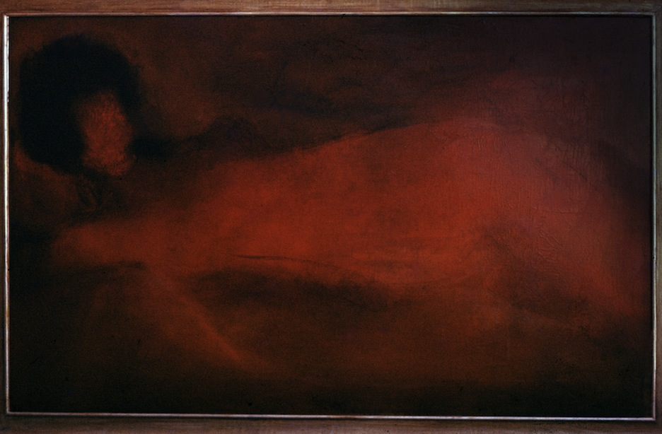 Carlo Alfano